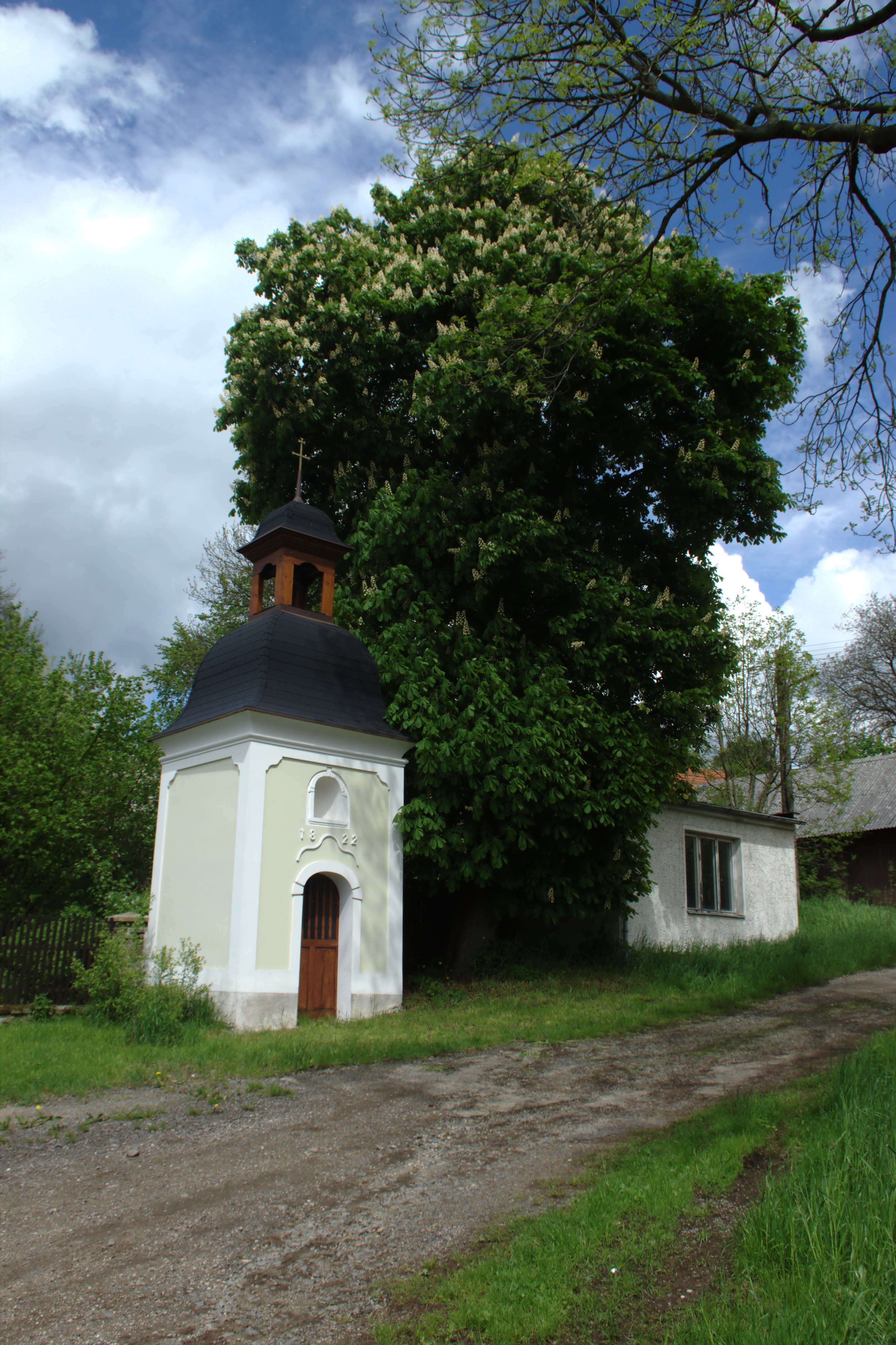 A chapel with a chestnut tree in Kácova Lhota, Central Bohemian Region, CZ